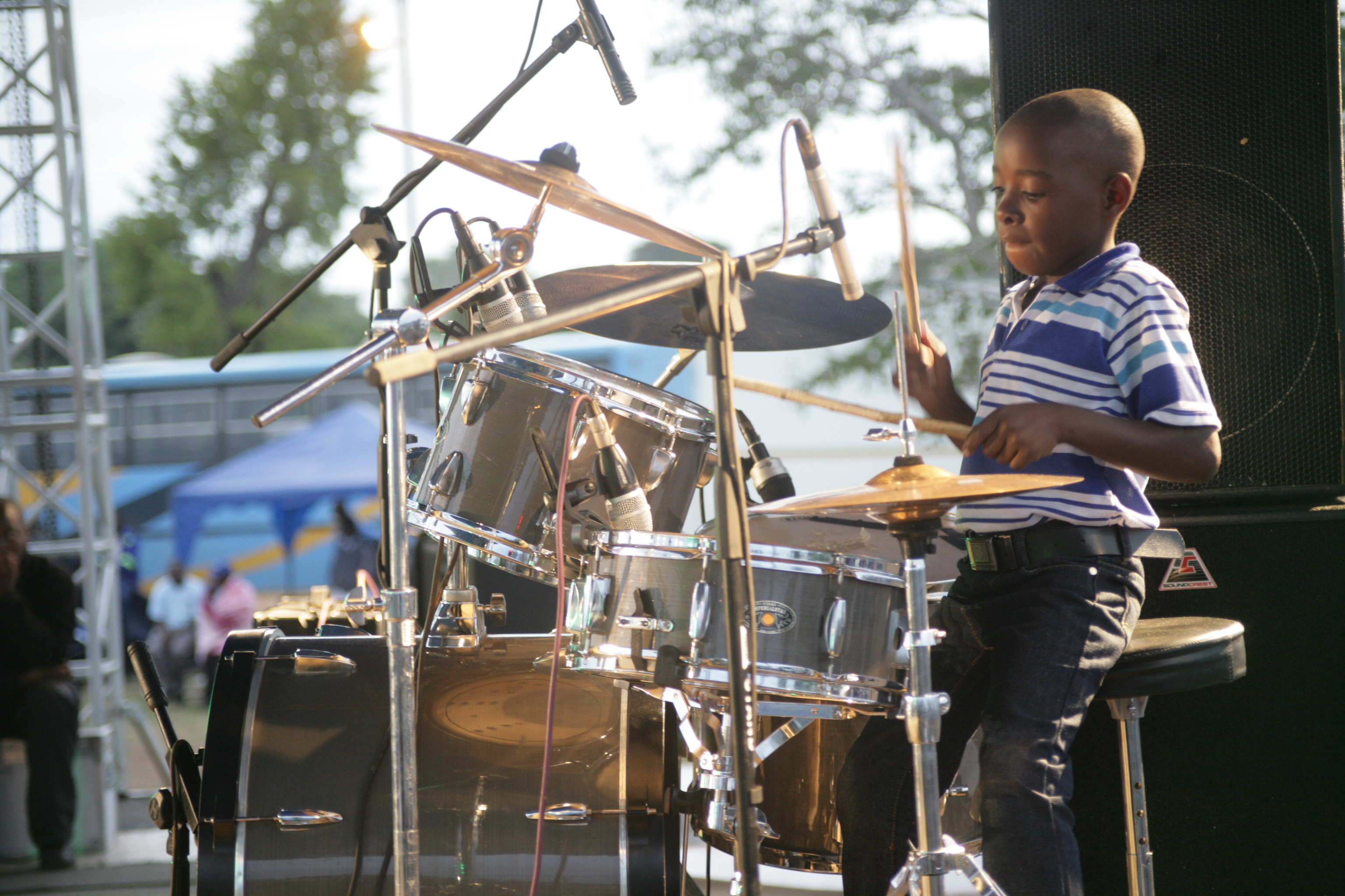 This is an image with the theme "Play" from: Zimbabwe